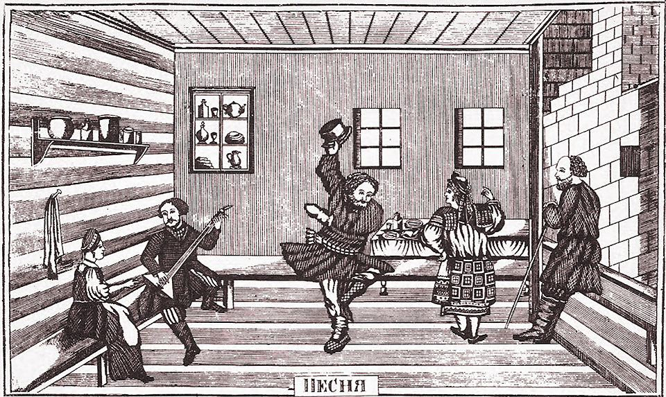 Barynya